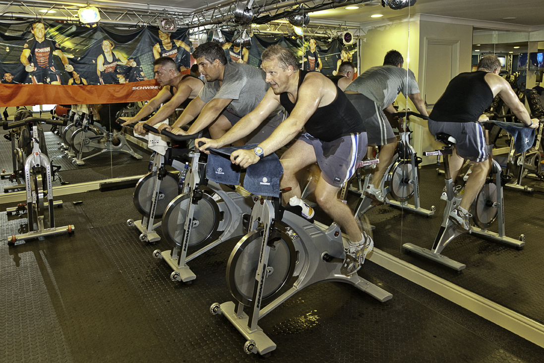 Spinning - static bicycle health regime. Foundation Club Sandhurst UK